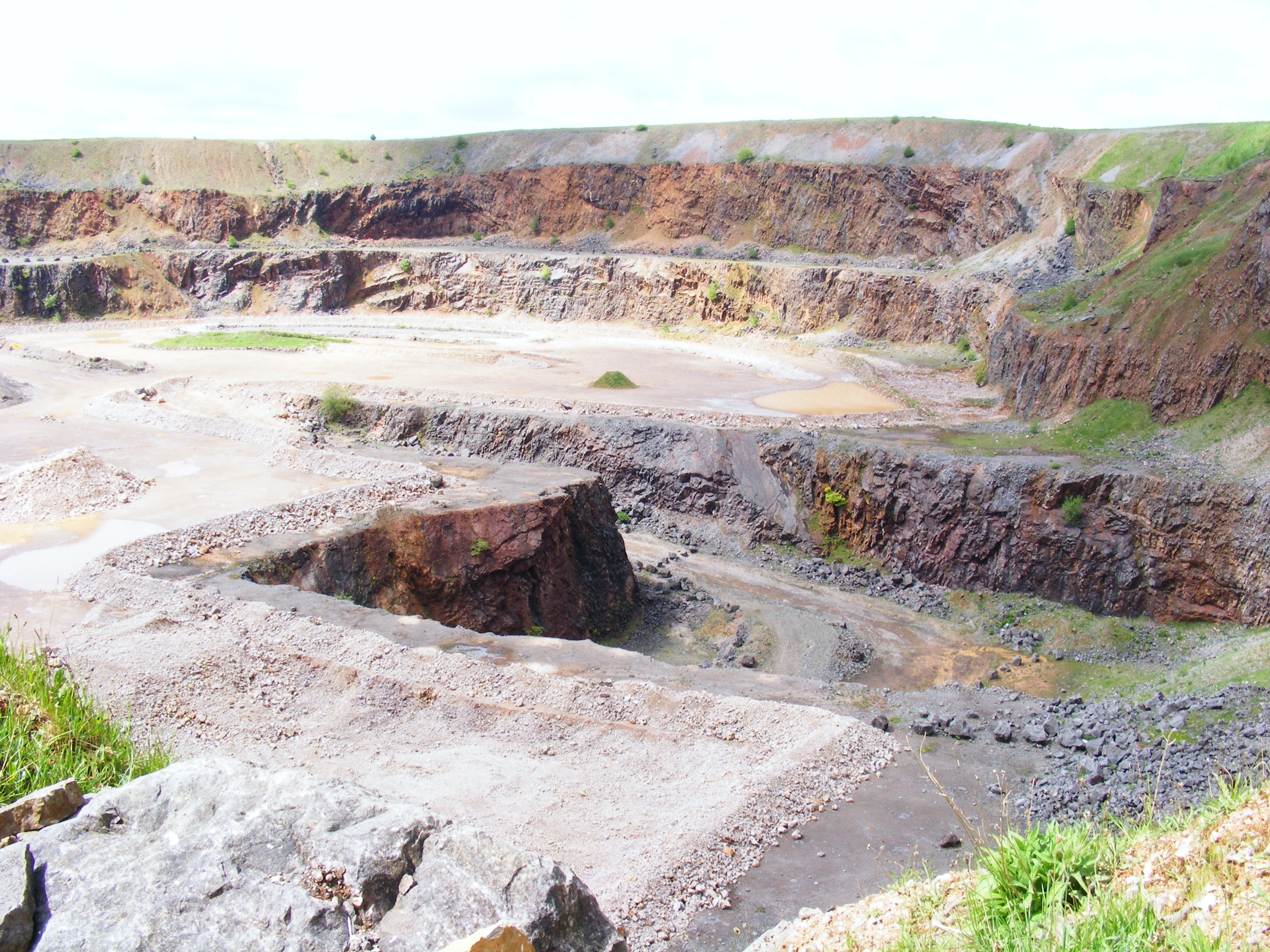 Wardlow Quarry site at the Weaver Hills. This limestone quarry is not actively worked in May 2009. The scale of the quarry site would make it suitable for a Staffordshire equivalent of The Eden Project (Cornwall).